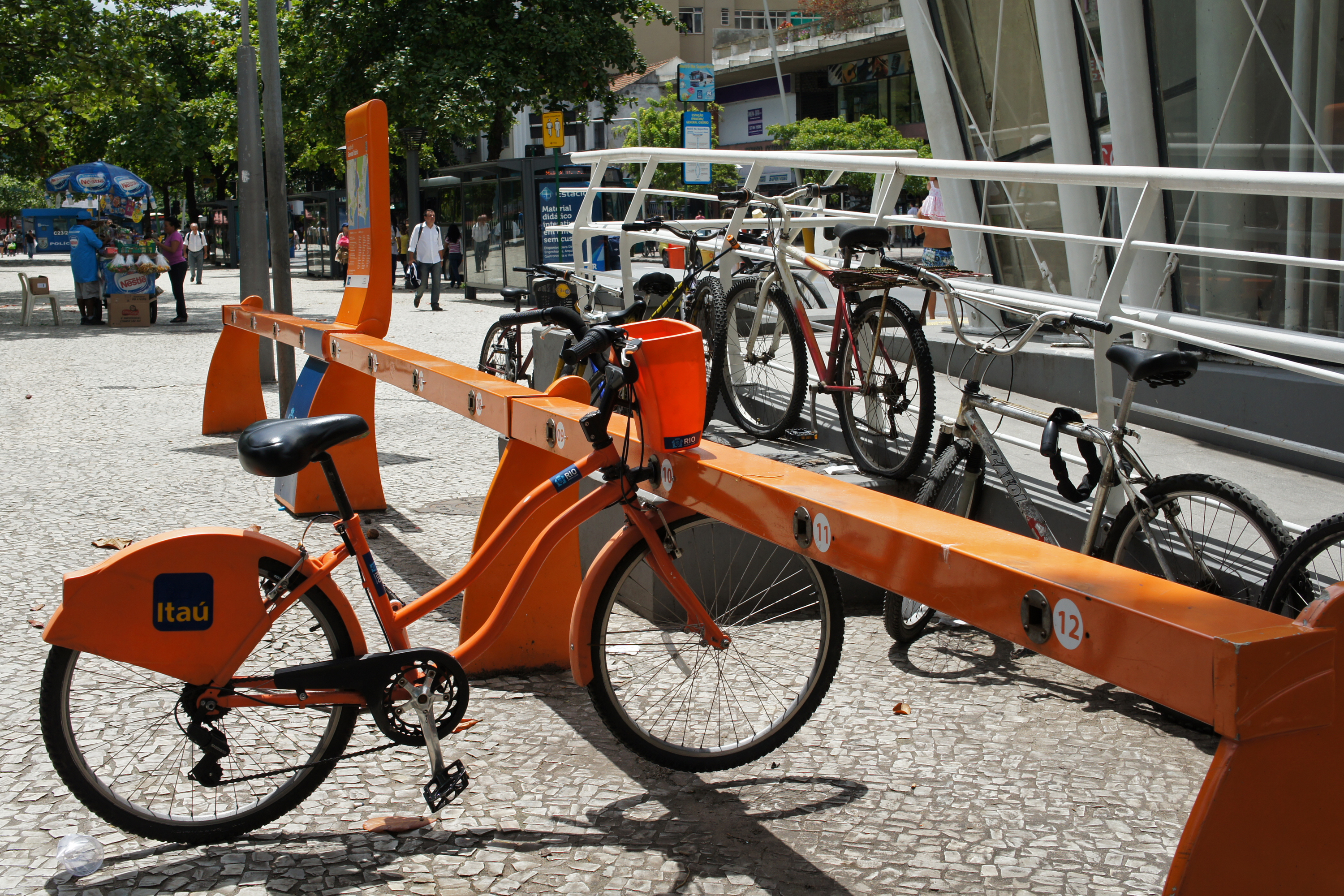 Bike Rio docking station at Ipanema/General Osorio Metro station, Rio de Janeiro